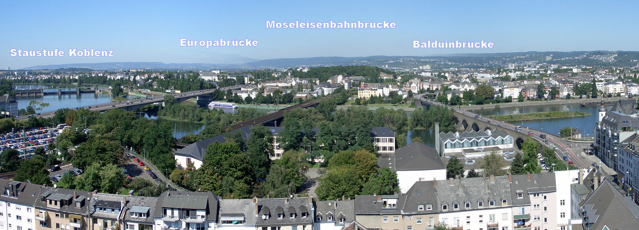 Bridges over the Moselle in Koblenz, Staustufe Koblenz, Europabrücke, Moseleisenbahnbrücke and Balduinbrücke